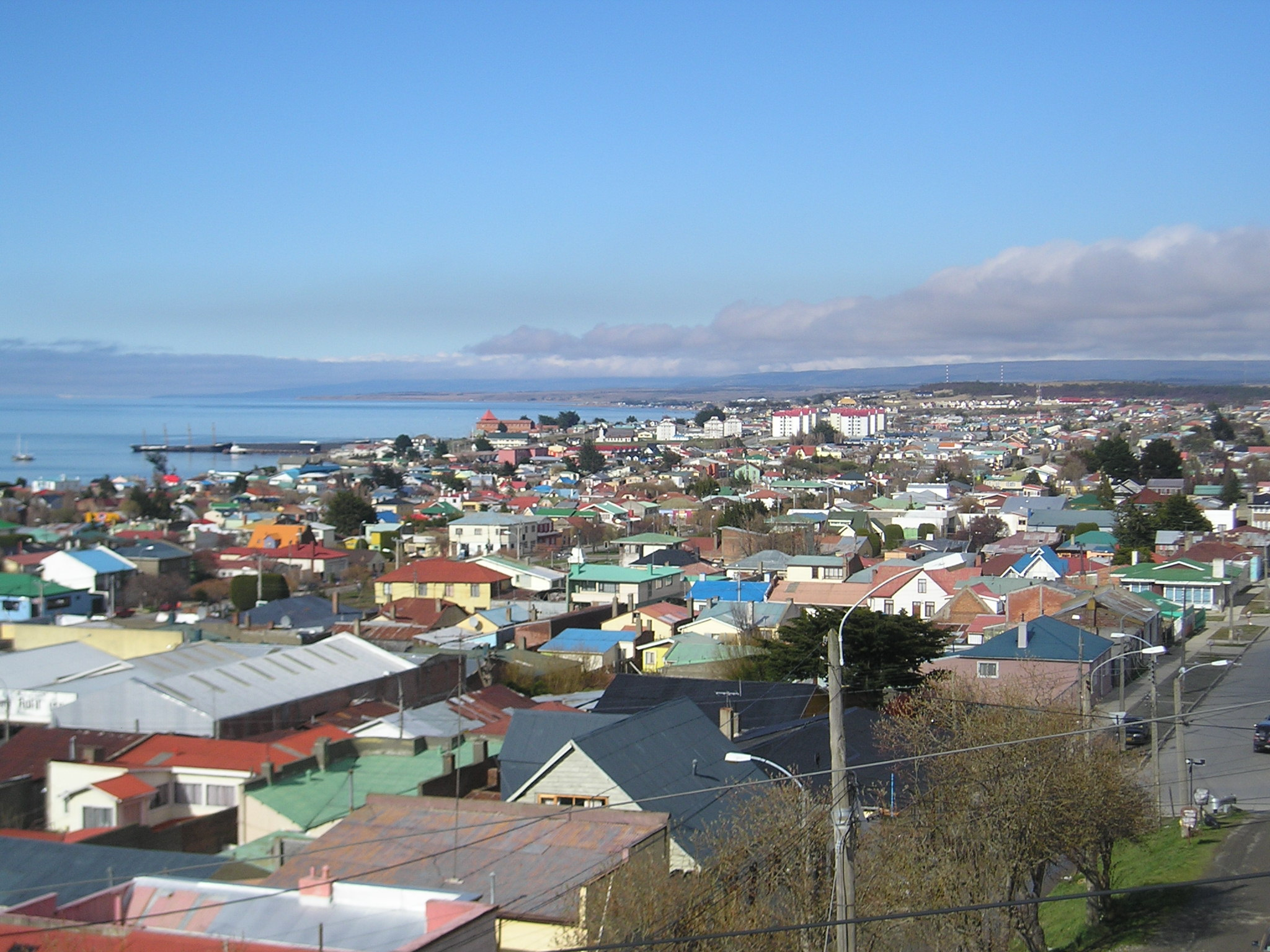 Punta Arenas, Chile - a view of the city's southern part from Cerro La Cruz